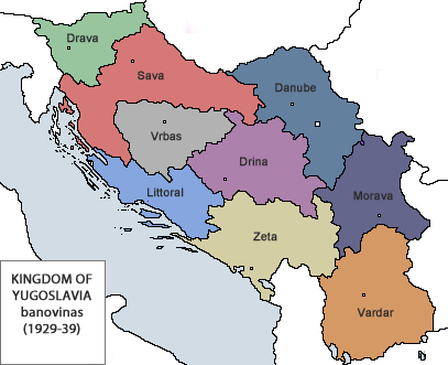 Subdivision in banovinas of the Kingdom of Yugoslavia in 1929, map in Italian